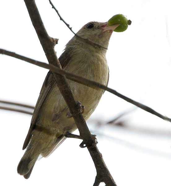 Tickell's Flowerpecker or Pale-billed Flowerpecker Dicaeum erythrorhynchos at Lotus Pond, Hyderabad, India.